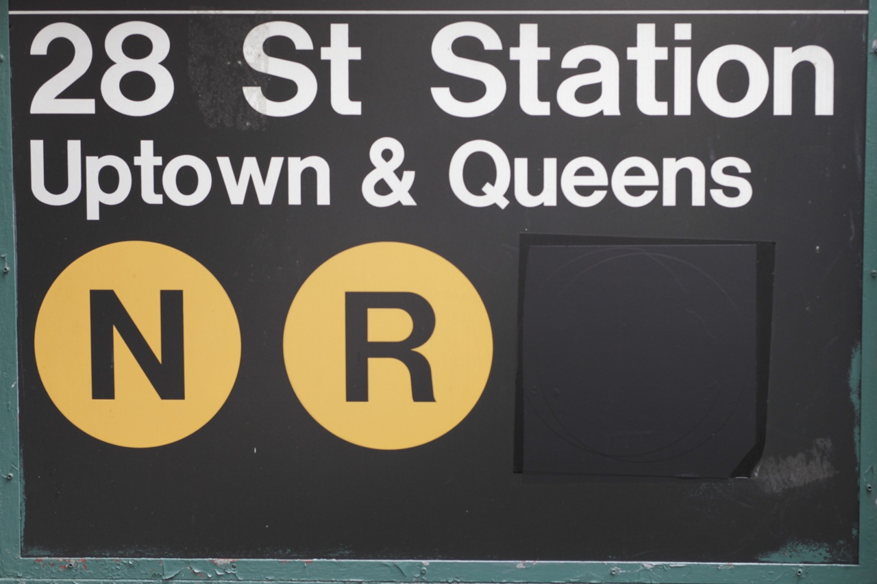 The NYC MTA cancels the W train in 2010.